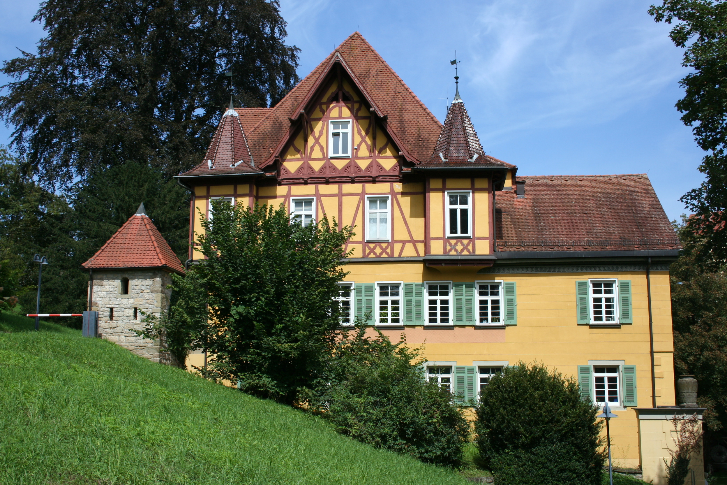 Palm'sches castle, Stuttgart-Mühlhausen, Germany